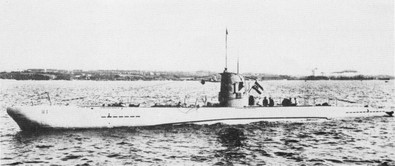 German submarine U 1 on trials